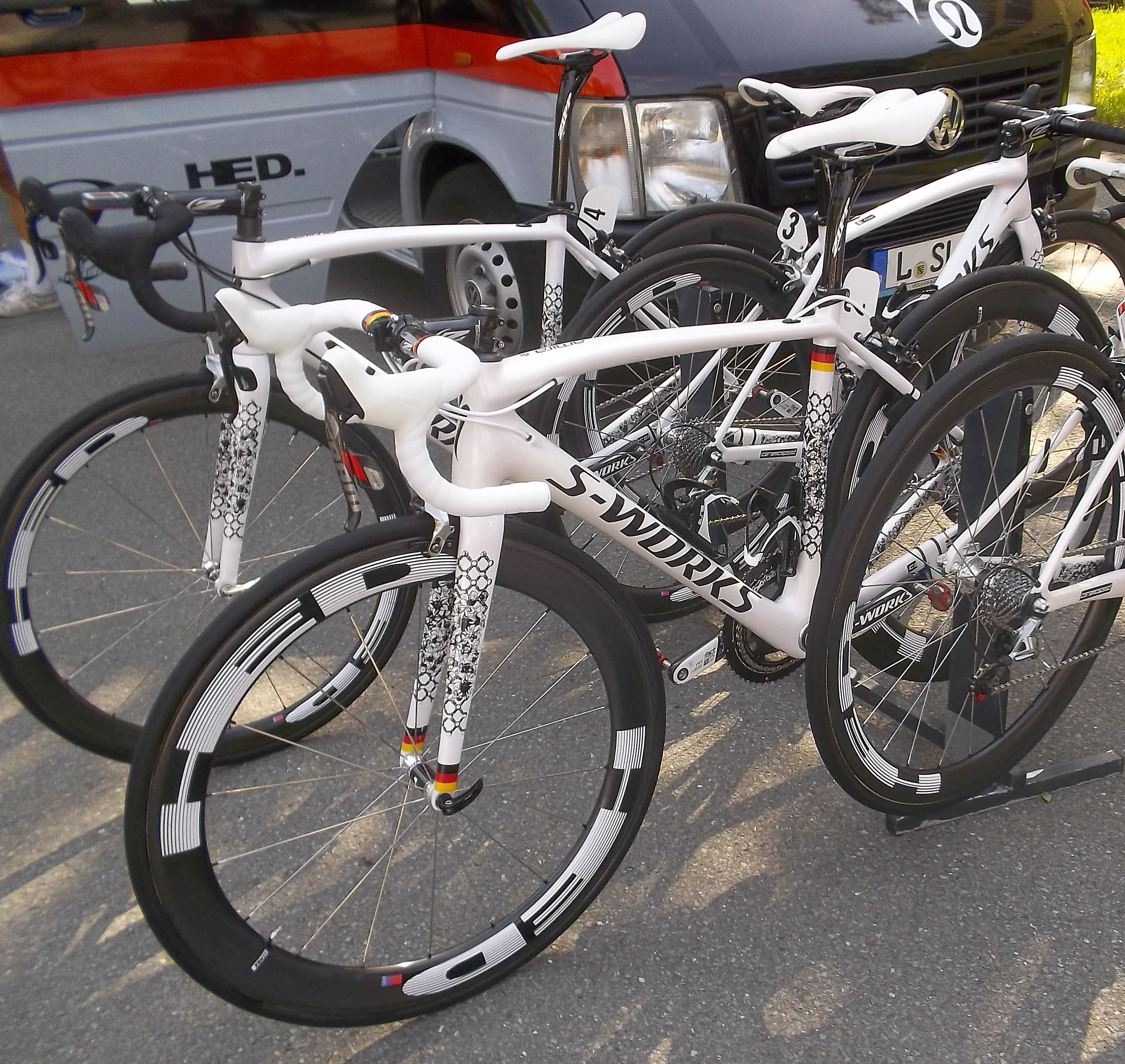 Specialized Amira SL4 from the team Specialized-Lululemon